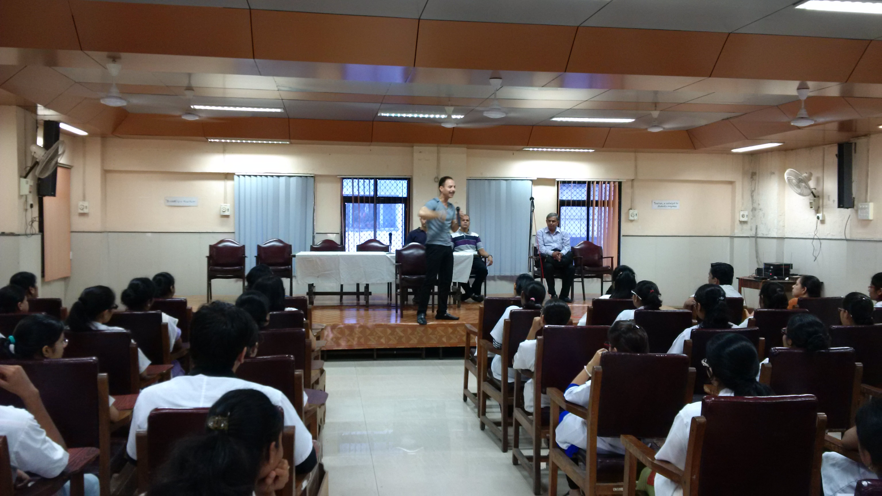 Mickey Mehta spoke with the doctors on overall wellness at the Nair Dental College